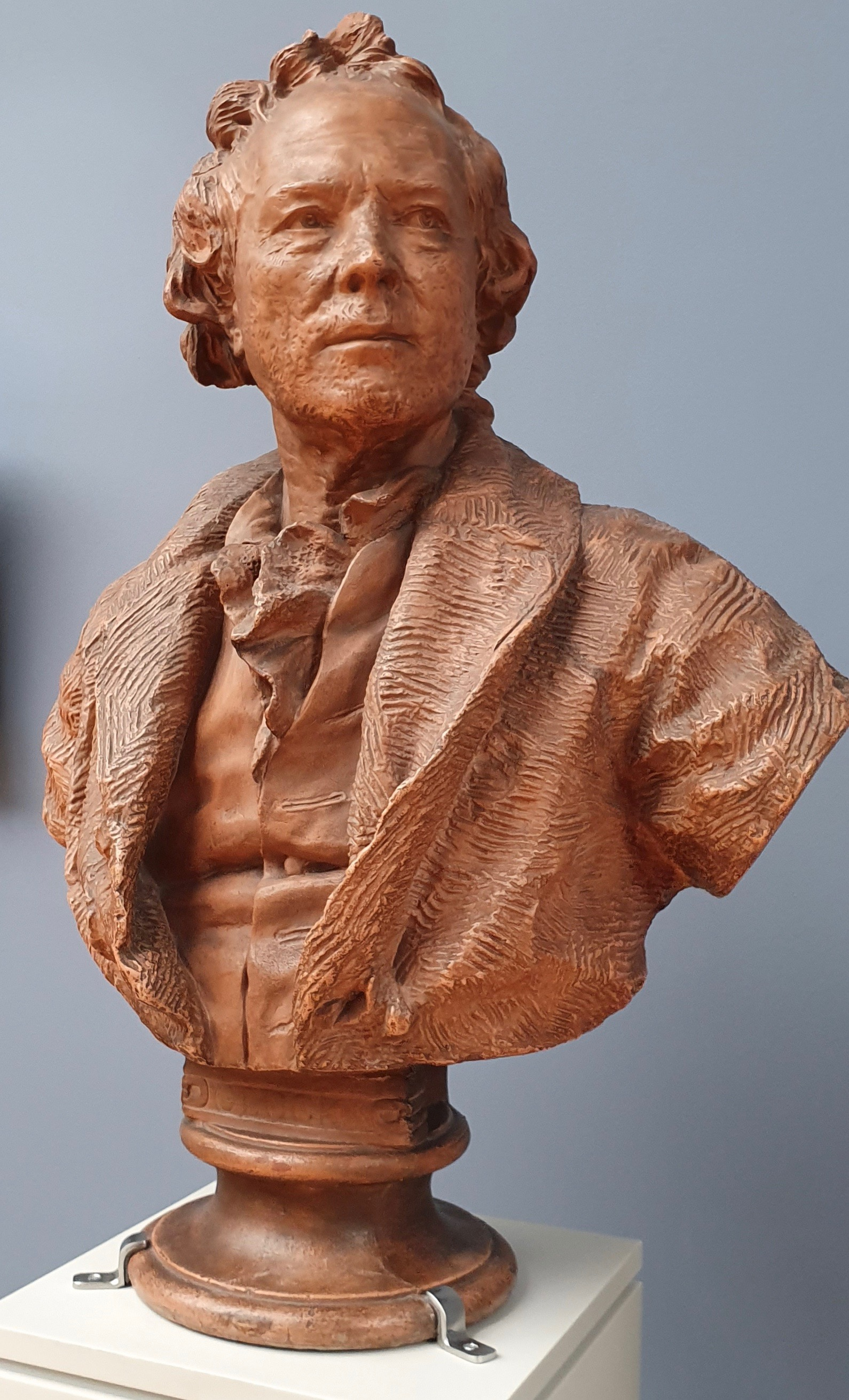 Christoph Willibard Gluck by Jean-Antoine Houdon at Bode Museum